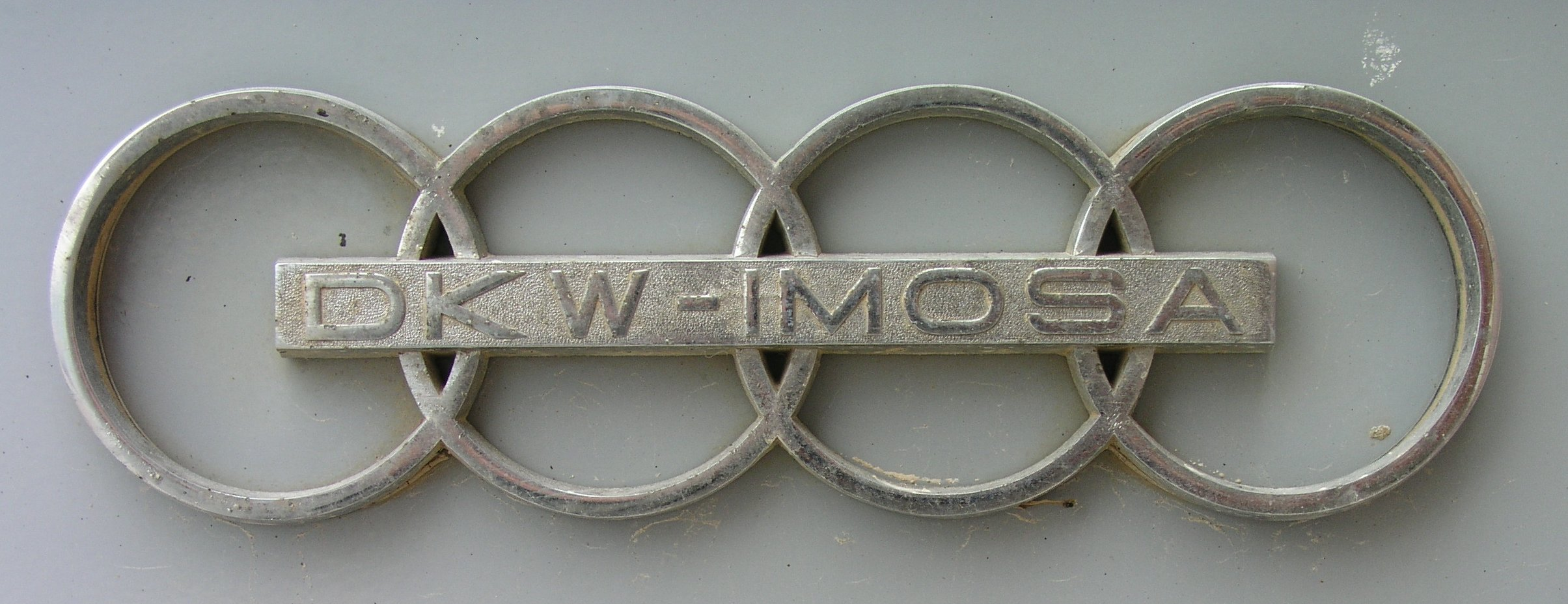 DKW logo in a spanish manufactured van. Van´s number plate is pre-1971